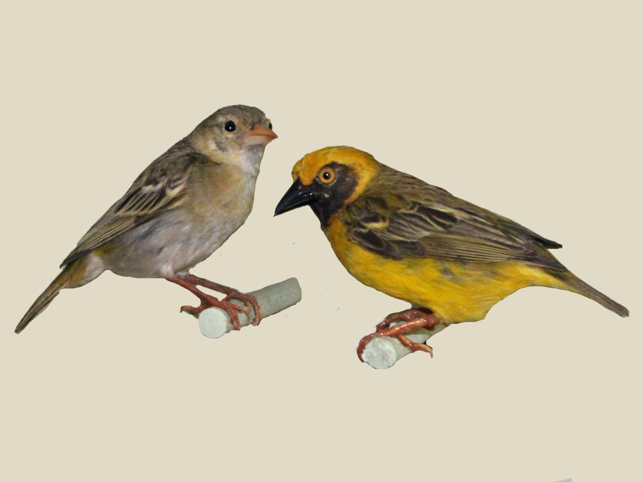 Heuglin's Masked Weaver (Ploceus heuglini). Female on left; male on right. Photograph of a specimen at Nairobi National Museum in Nairobi, Kenya.